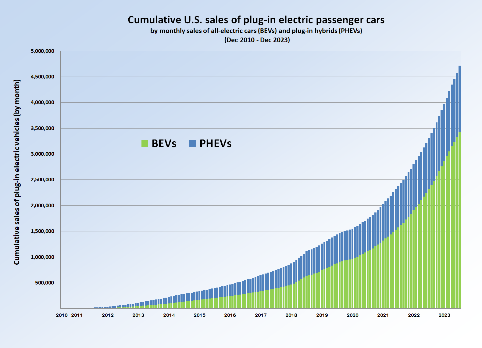 Graph showing historical trend of cumulative sales of plug-in electric passenger cars in the United States from December 2010 through September 2019. Data series taken from EDTA (2019) and (until 2017). Since 2018 EDTA uses figures from InsideEVs. Graphic built by the author using Excel and converted to PNG with Photoshop Elements.Note: U.S. auto industry sales reporting methodology changed significantly beginning in October 2019, when many automakers ended monthly reporting or moved to an overall quarterly sales report without model breakdowns. As a result, the graph shows cumulative monthly sales only until September 2019, and no longer can be updated.